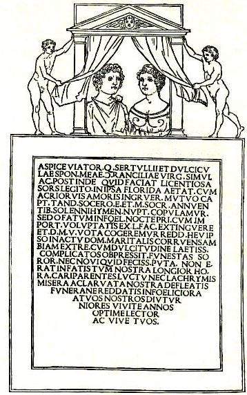 Illustration from Hypnerotomachia Poliphili, by anonymous, AldusManutius Venice 1499. The last part of the name of the file points to the containing page.